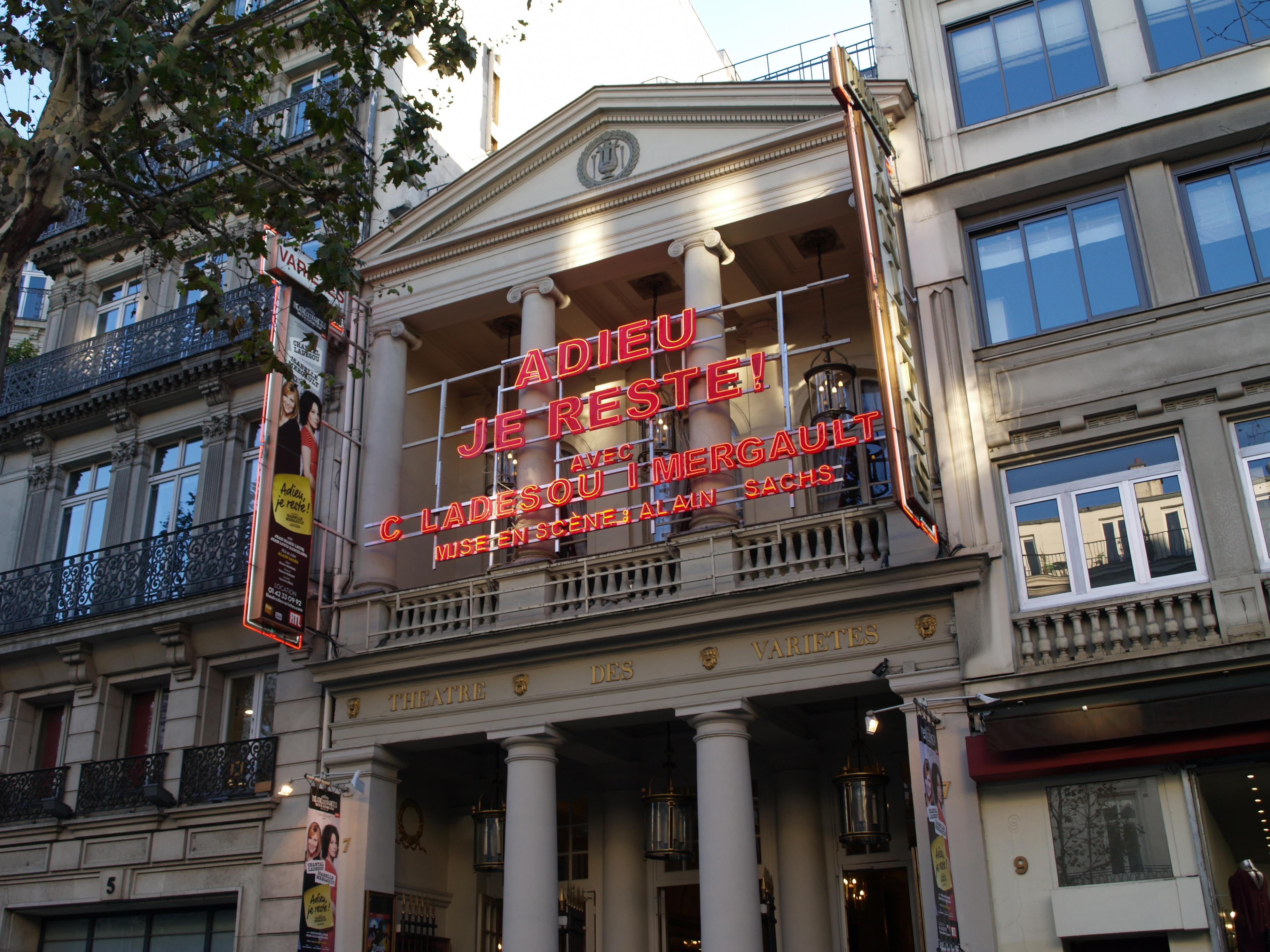 Théâtre des variétés, taken in december 2012 with the show's "Adieu, je reste !" front window.